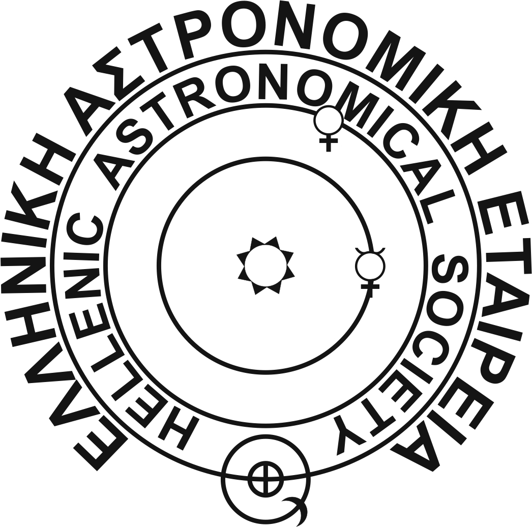 This is the stamp of the Hellenic Astronomical Society